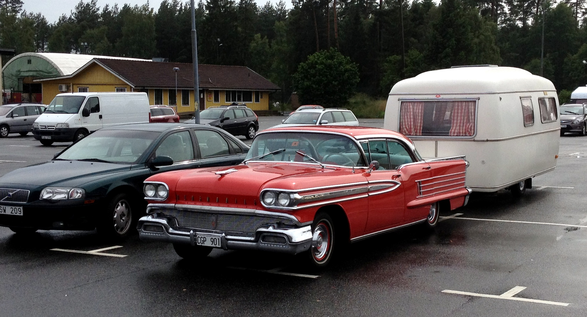 1958 Oldsmobile 98